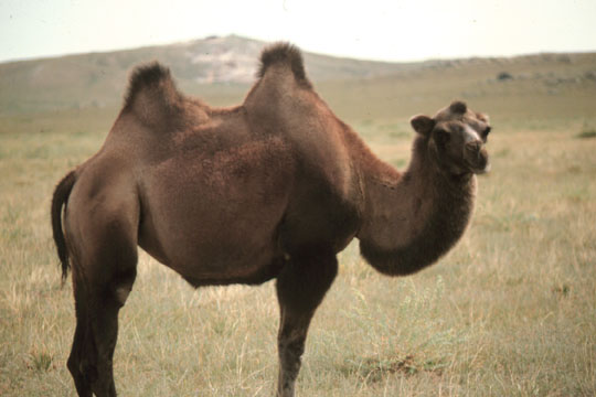 Camel Description from source: The more productive grasslands support an abundance of horses, sheep, and cattle. These tend to be replaced by camels as you approach desert grasslands and the Gobi desert.